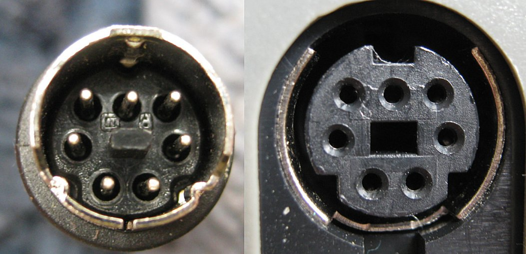 Standard 7 pin mini-DIN connectors, male and female.